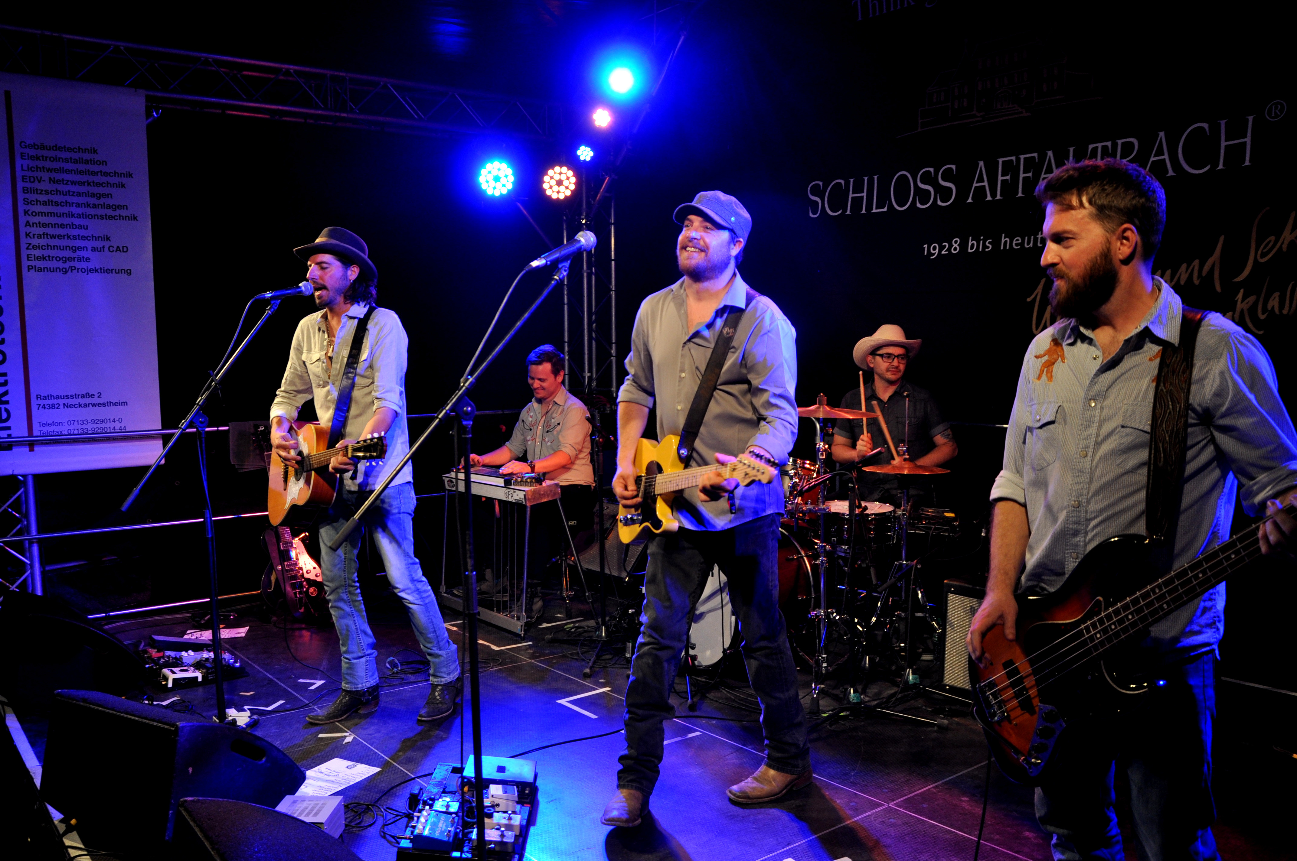 Micky And The Motorcars (USA) appearance at the 2017 blacksheep festival at Bonfeld castle, Bad Rappenau, Baden-Wuerttemberg, Germany Festivalsommer This photo was created with the support of donations to Wikimedia Deutschland in the context of the CPB project "Festival Summer".